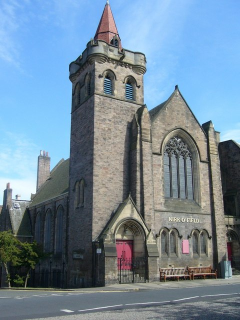 Kirk O'Field parish church, Pleasance The church, opened in 1912, took its name from the historic St Mary-in-the-Fields which stood on the site now occupied by the University's Old College.